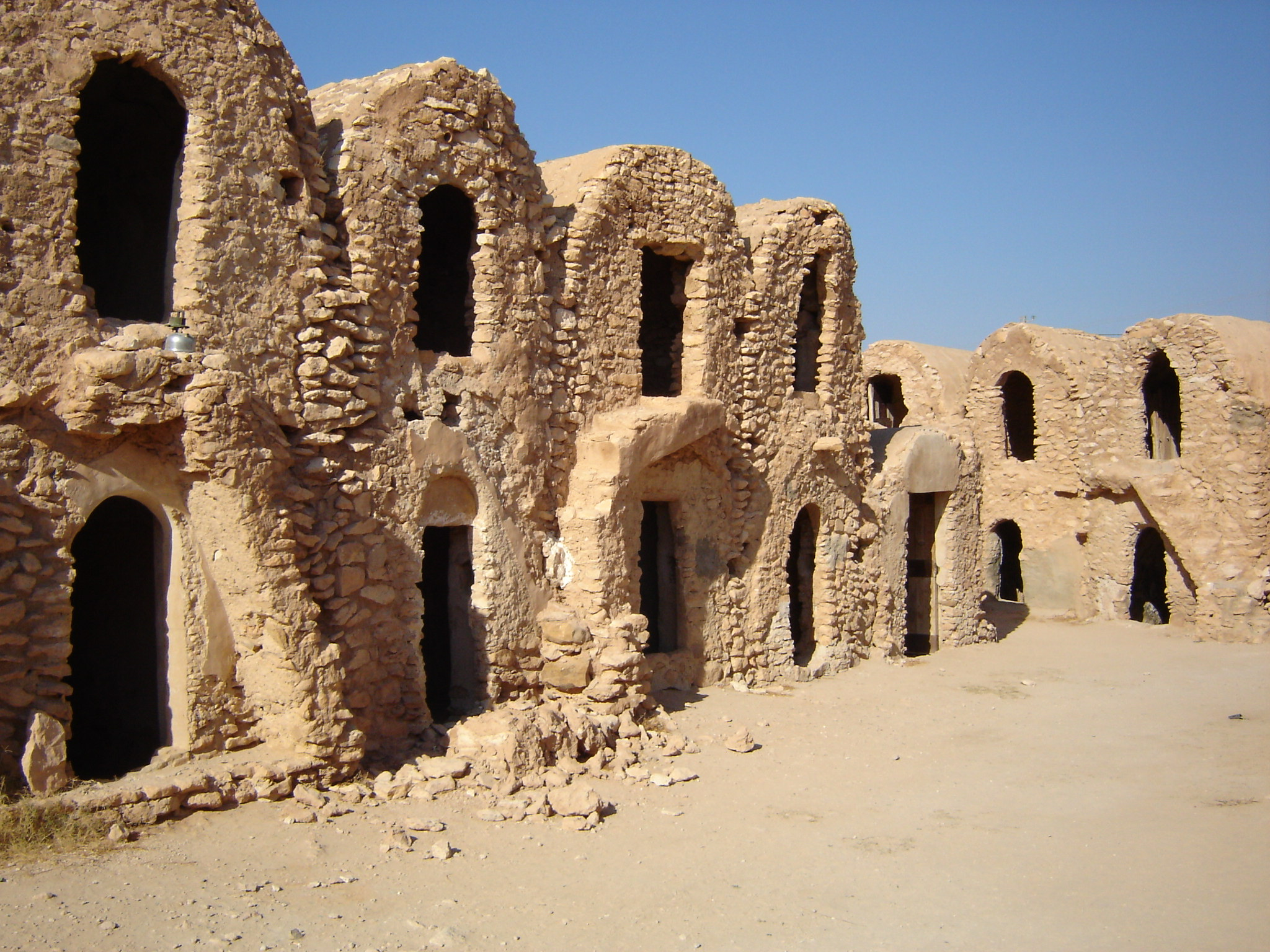 Ksar Hadadda, Tunisia Source: Self made (October 2004) Author: BishkekRocks 15:37, 26 December 2005 (UTC)